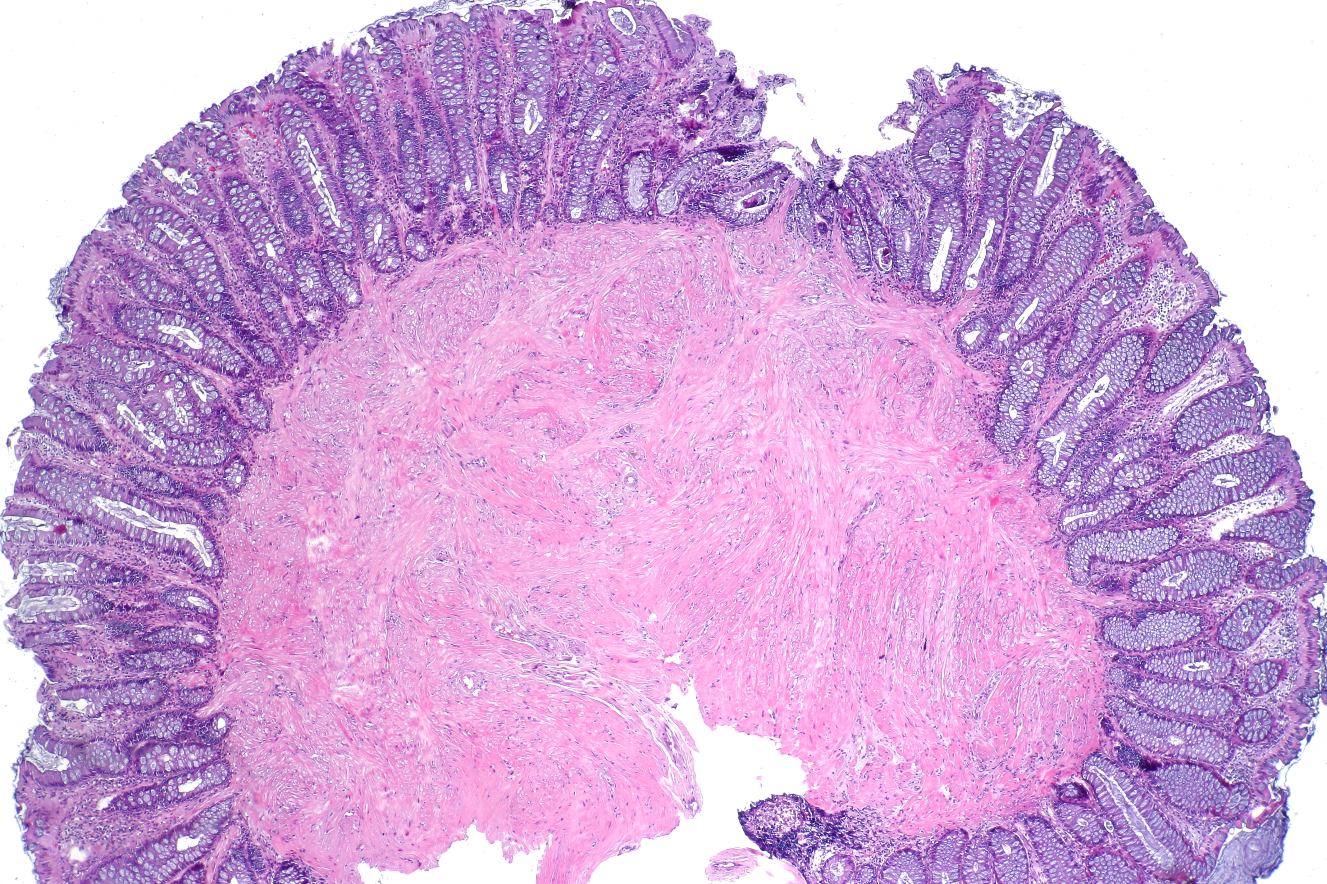 Micrograph of a small, well-circumscribed colonic leiomyoma arising from the muscularis mucosae and showing fascicles of spindle cells with eosinophilic cytoplasm and elongated, cigar-shaped nuclei. No mitotic activity or cytologic atypia is seen. H&E Stain.